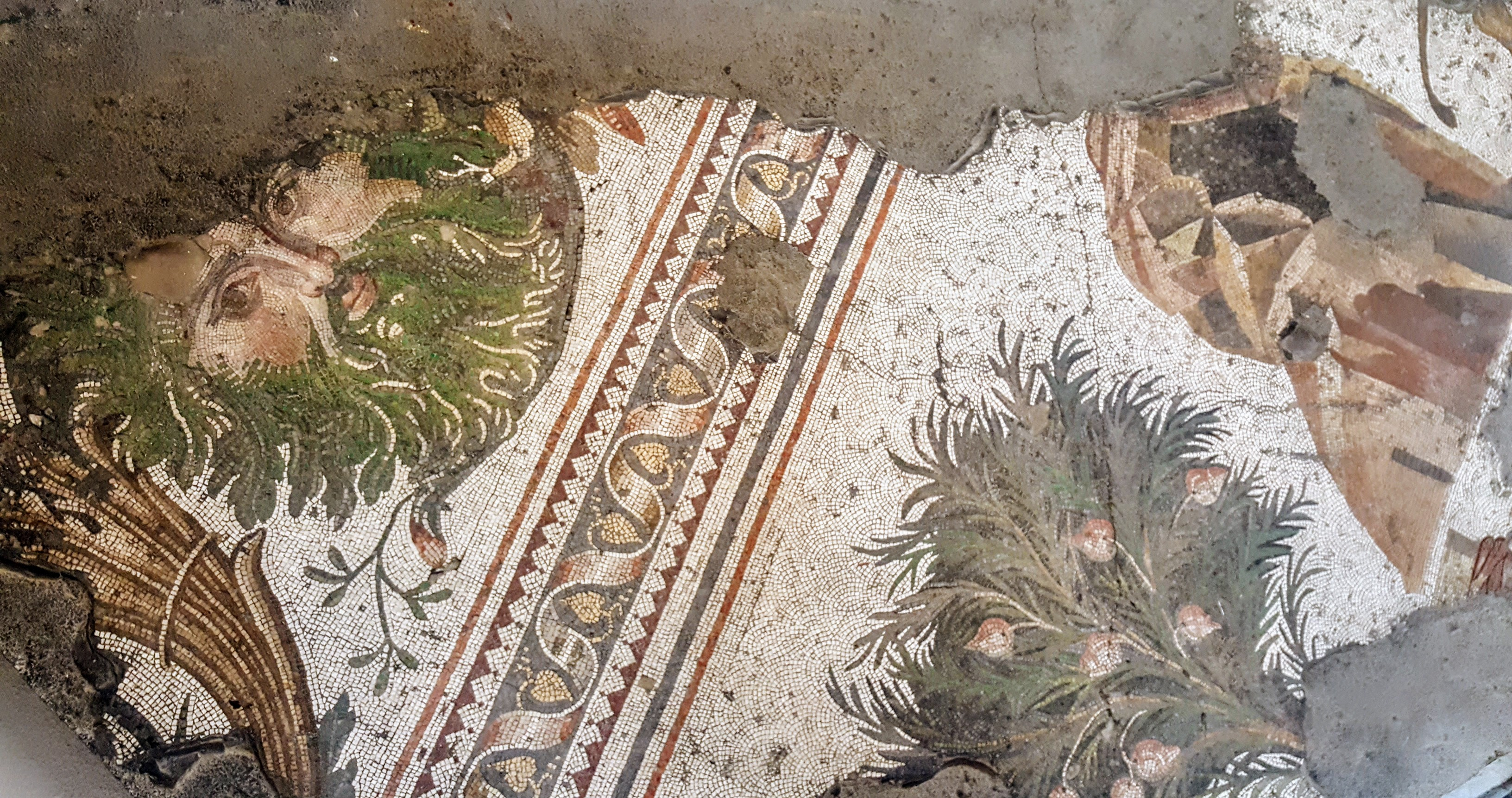 Green Man mosaic in Istanbul Museum